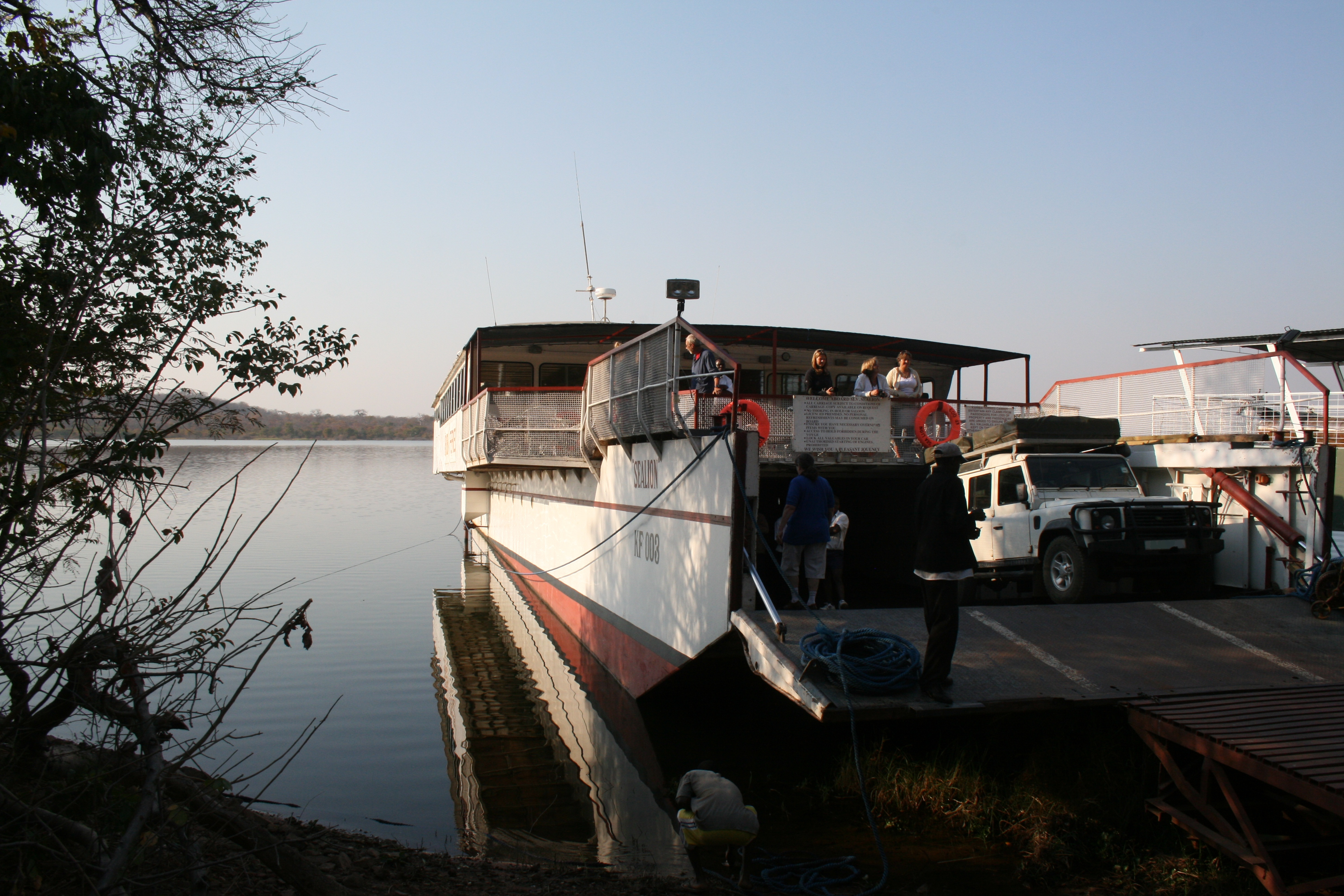 Kariba Ferry loading at Mlibizi Harbour